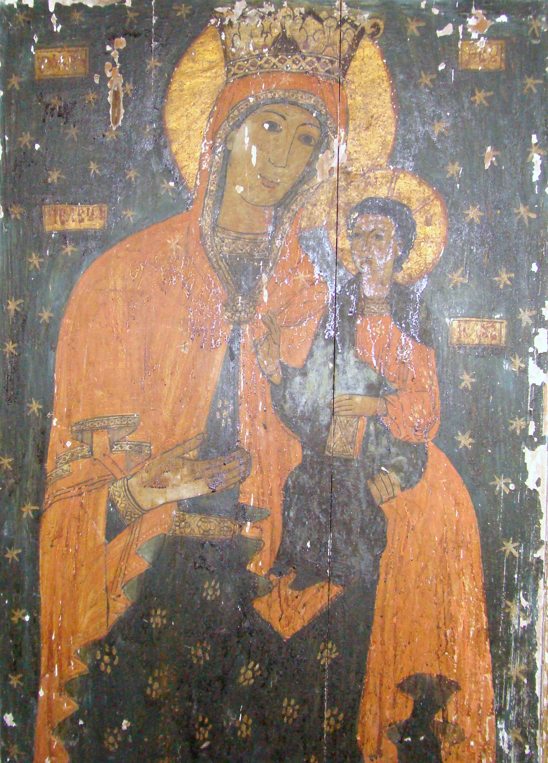 Wooden church in Chergheș, Hunedoara county, Romania